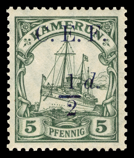 stamp series for German Colonies with British overprint Ausgabepreis: 1/2 d First Day of Issue / Erstausgabetag: 1915 Michel-Katalog-Nr: 2 (Deutsche Kolonie Kamerun unter Britischer Besetzung)